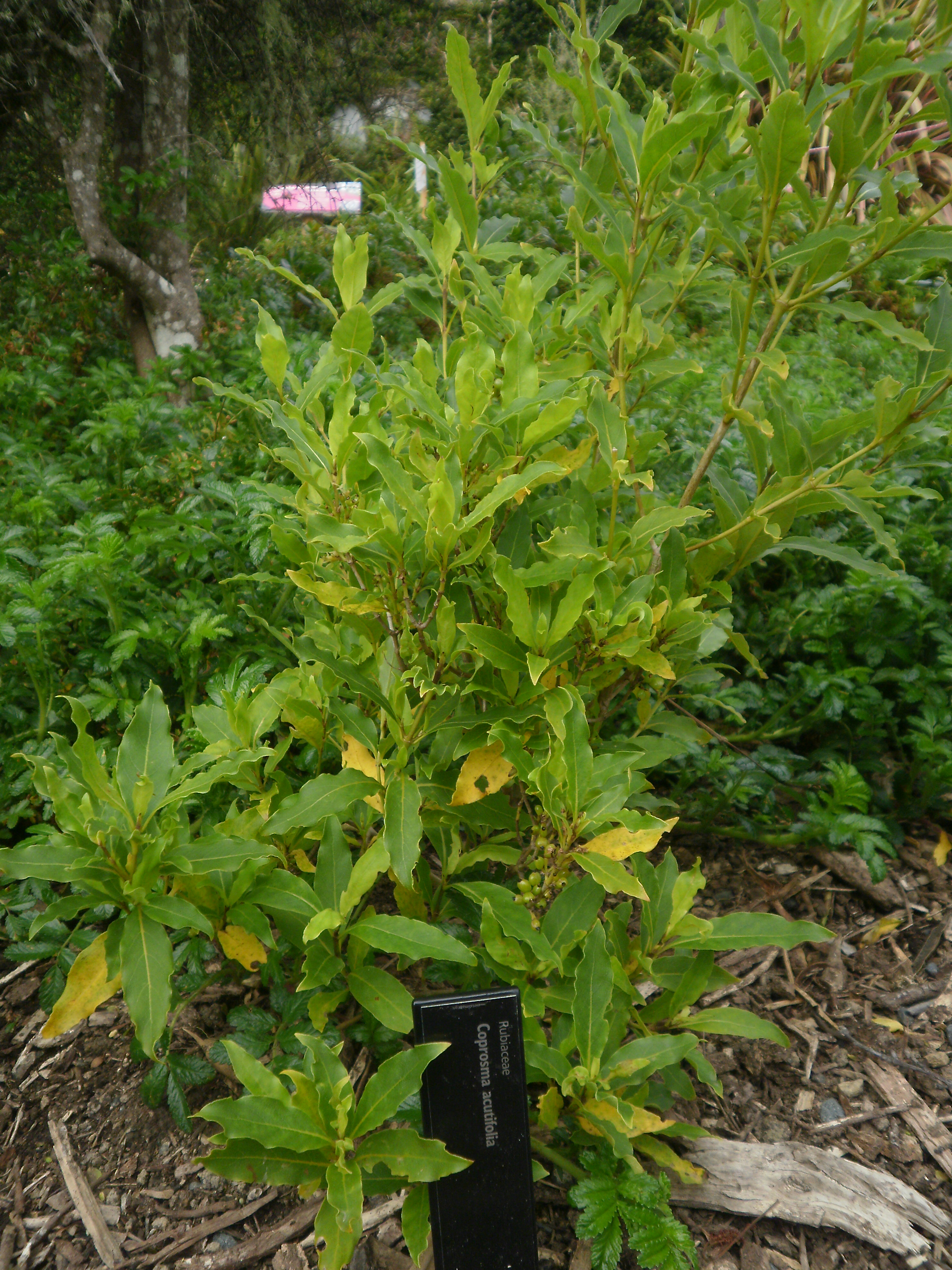 Coprosma acutifolia, at Otari-Wilton's Bush, Wellington, New Zealand.